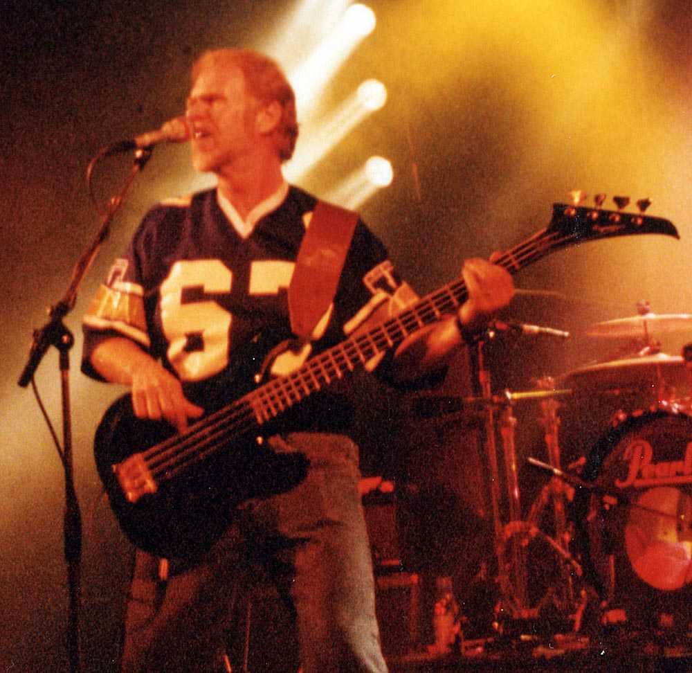 Fred Turner of Bachman–Turner Overdrive in Örebro Folkets hus 1991.